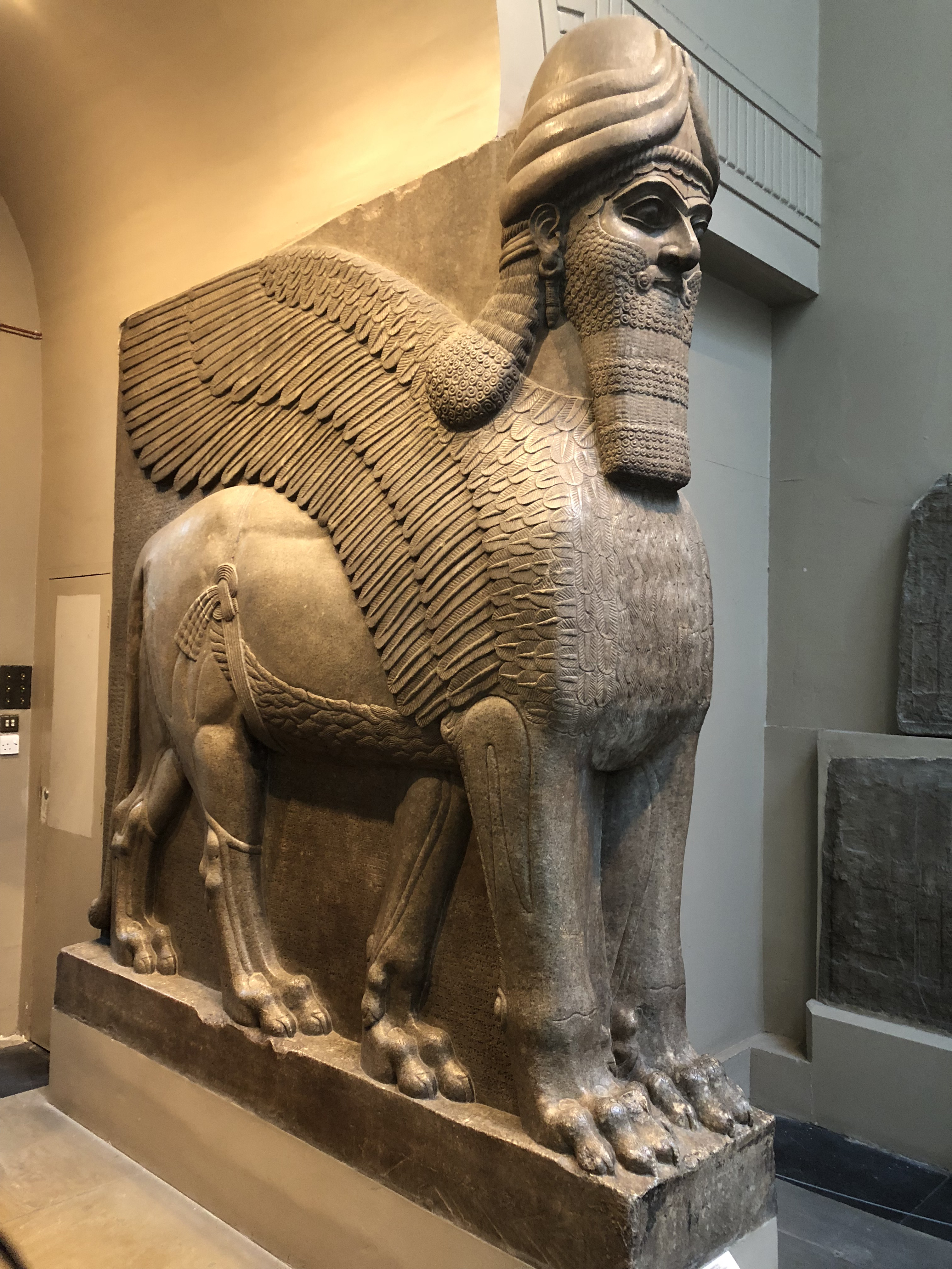 This human headed bull guarded the entrance into the kings private apartments. 865-860 BCE. This bull is from the British Museum, and its pair is in the Metropolitan Museum of Art in New York.